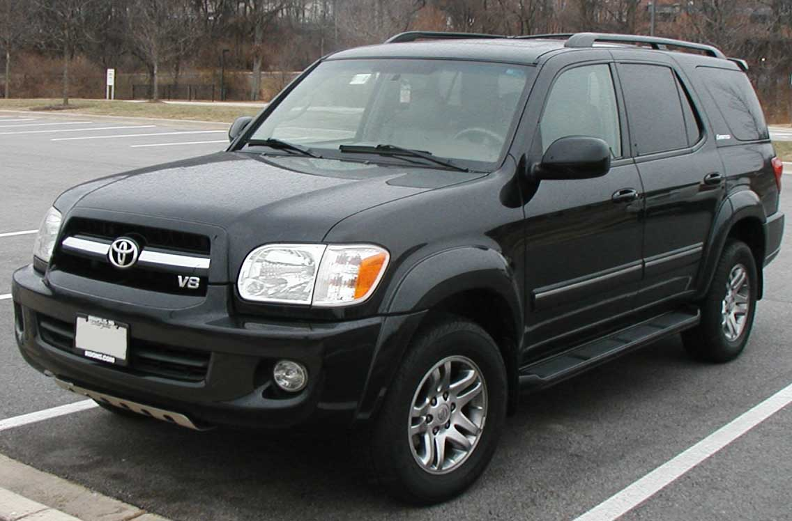 2005-2007 Toyota Sequoia photographed in College Park, Maryland, USA.